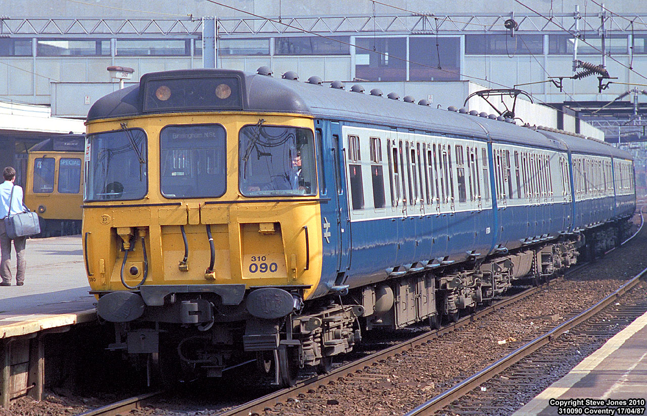 310090 310090 at Coventry on 17/04/87. Scanned from a Kodacolor Gold 100 colour negative.